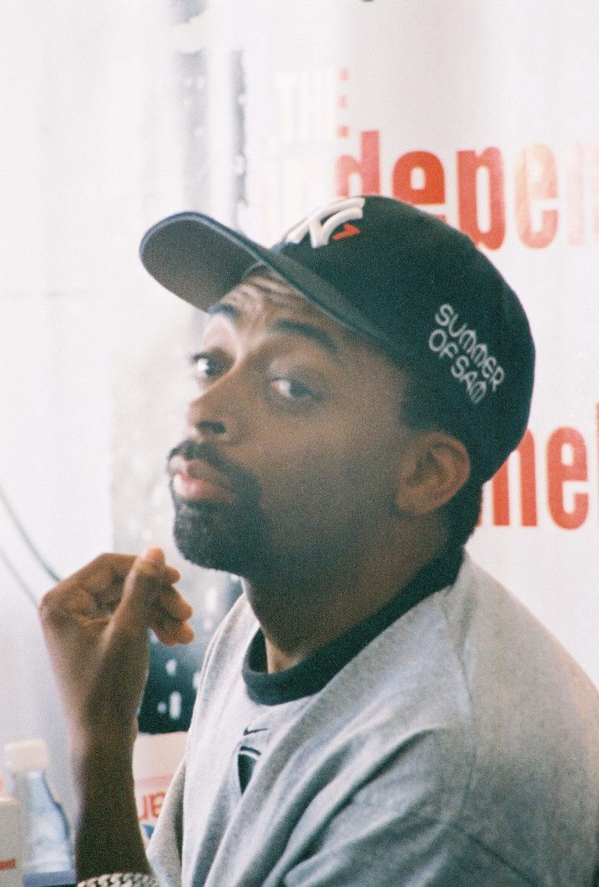 Cannes 1999, talking about "Summer of Sam"